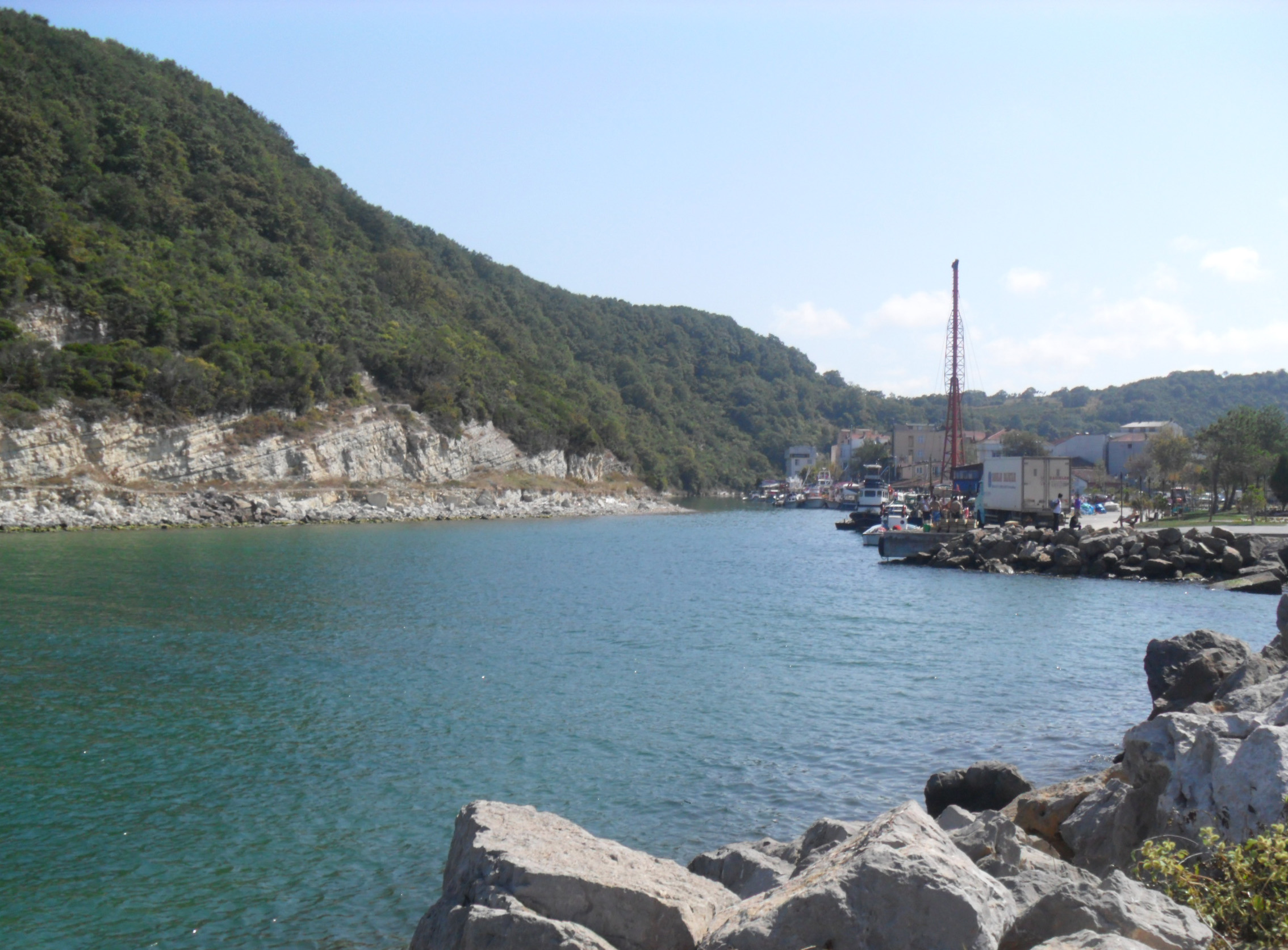 Yeşilçay River, Ağva, Şile district, İstanbul Province, Turkey